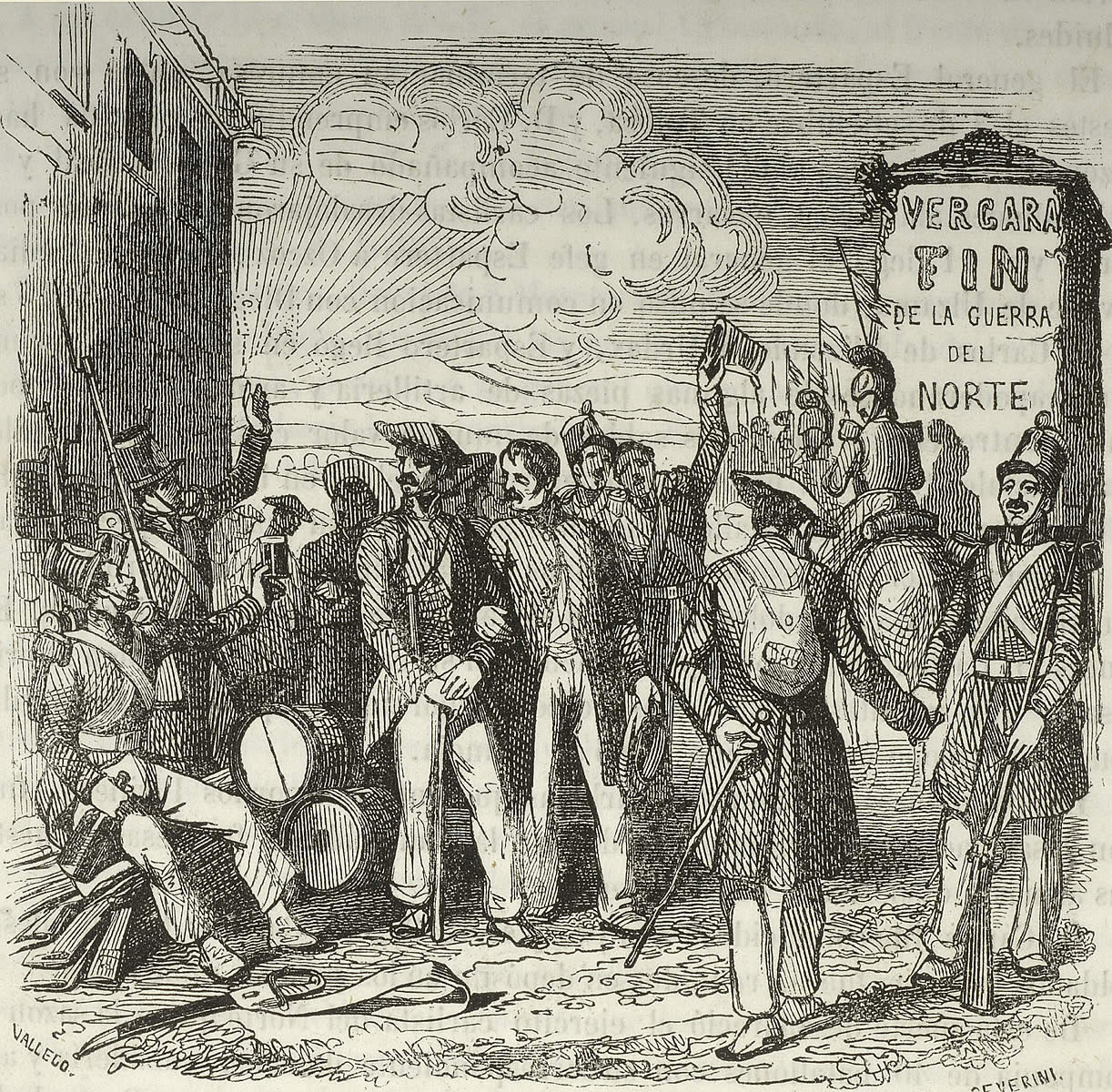 First Carlist War engravingsEuskara: Lehen Karlistaldiko grabatuak